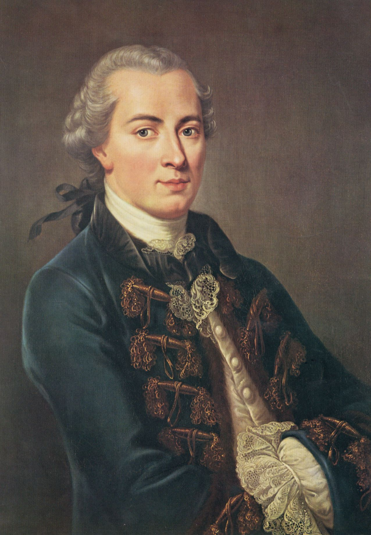 erroneously identified as portrait of Immanuel Kant (1724-1804).